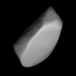 3D convex shape model of 1219 Britta, computed using light curve inversion techniques. J. Hanuš, J. Ďurech, M. Brož, B. D. Warner (June 2011). "A study of asteroid pole-latitude distribution based on an extended set of shape models derived by the lightcurve inversion method". Astronomy and Astrophysics 530: A134. ISSN 0004-6361. arXiv